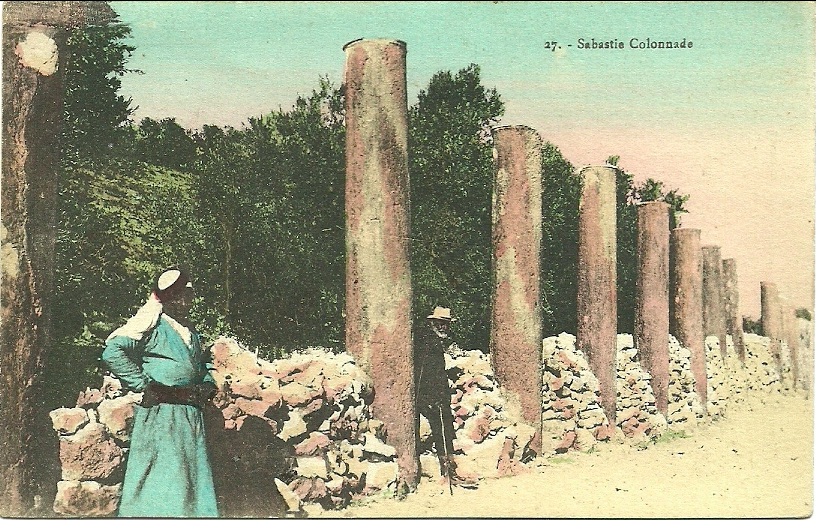 Karimeh Abbud photo, "Sebastie colonnade"